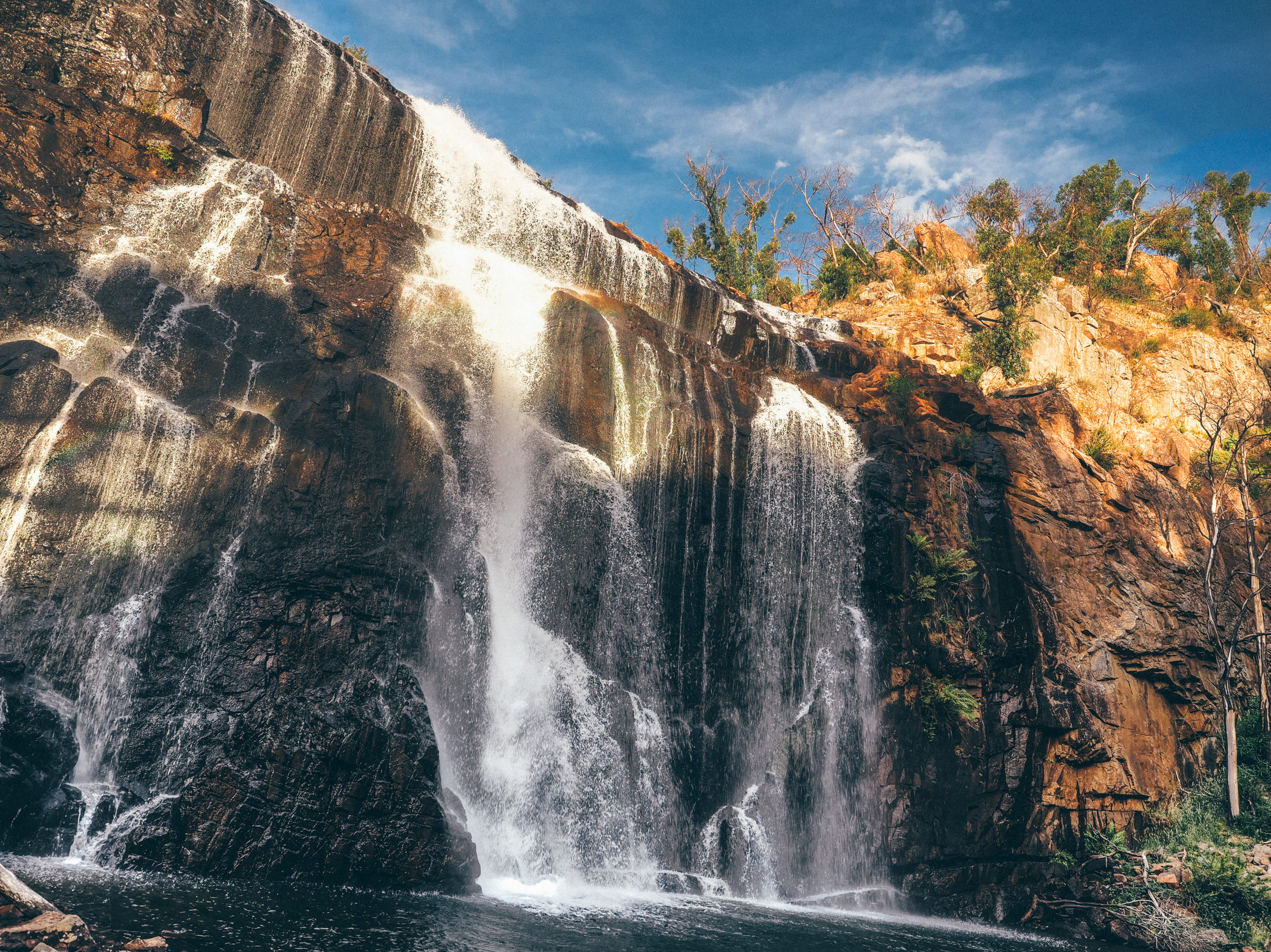 the amazing MacKenzie Falls